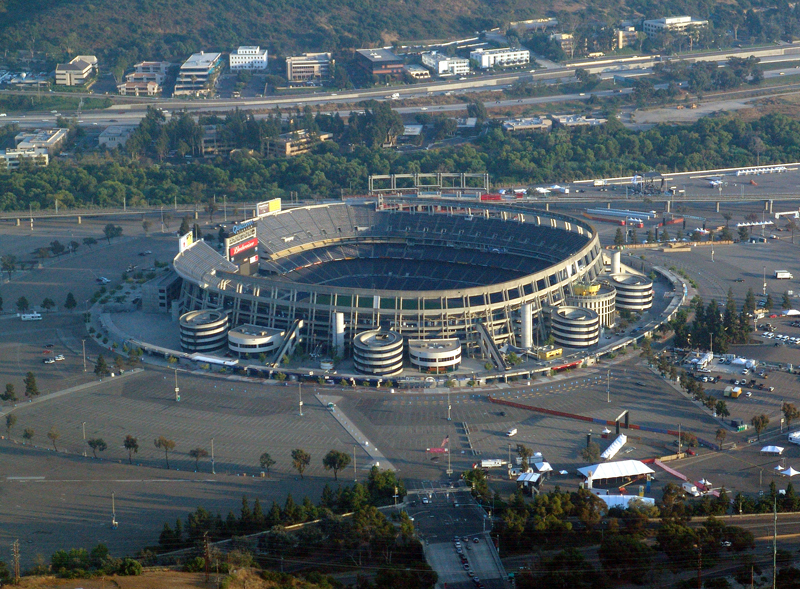 Qualcomm Stadium, aerial view from the north side. Photograph © Minerva Vazquez, en:27 July en:2005.